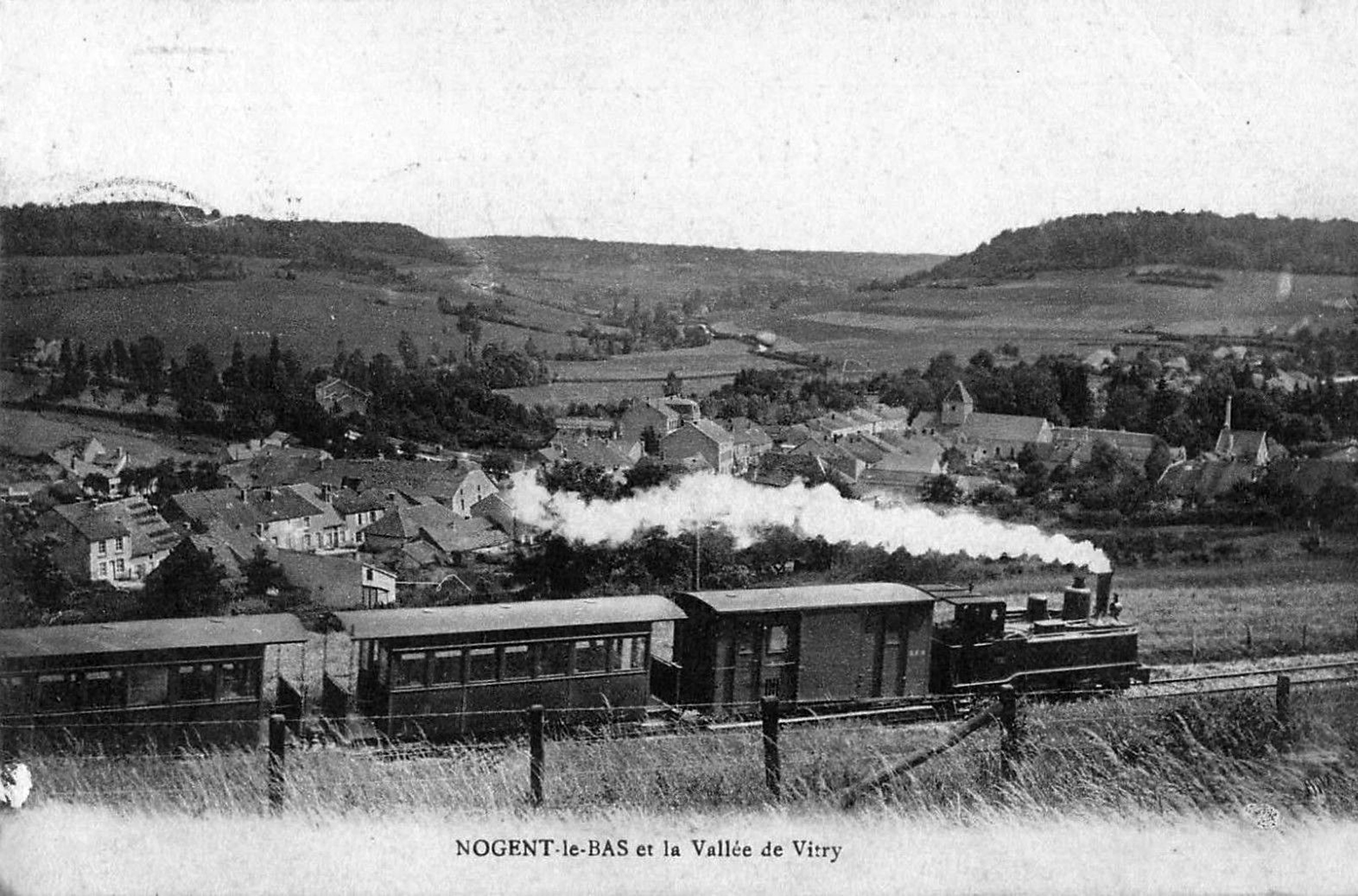 metre gauge train in the Vitry Valley